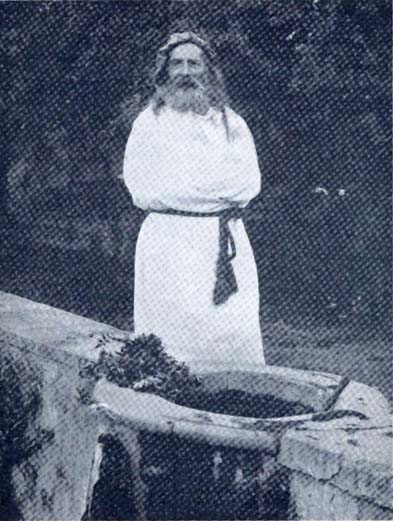 Photo of the occultist Max Theon (1848(?)-1927), founder of the Cosmic Movement and The Hermetic Brotherhood of Luxor